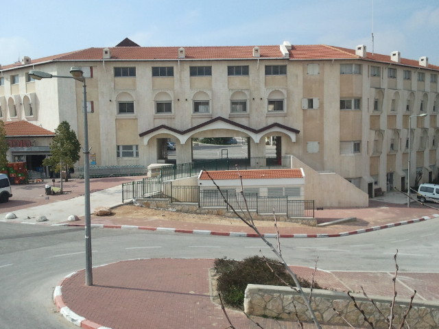 Local Council of Kiryat Arba Hebron building-backside